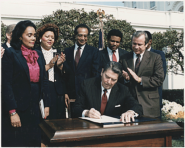 Photograph of President Ronald Reagan and the Signing Ceremony for Martin Luther King Holiday Legislation